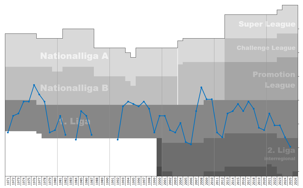 Chart of end-season table positions of FC Gossau in the Swiss football league system. Data source: RSSSF, , football.ch